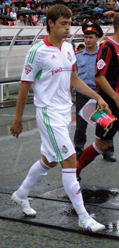 Diniyar Bilyaletdinov as a captain of FC Lokomotiv Moscow